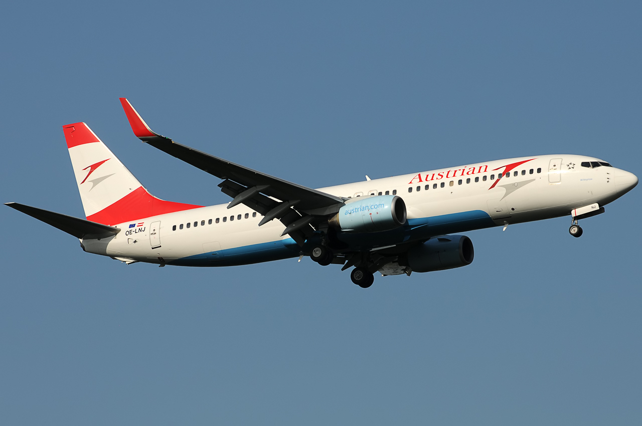 Austrian Airlines Boeing 737-8Z9 'OE-LNJ'